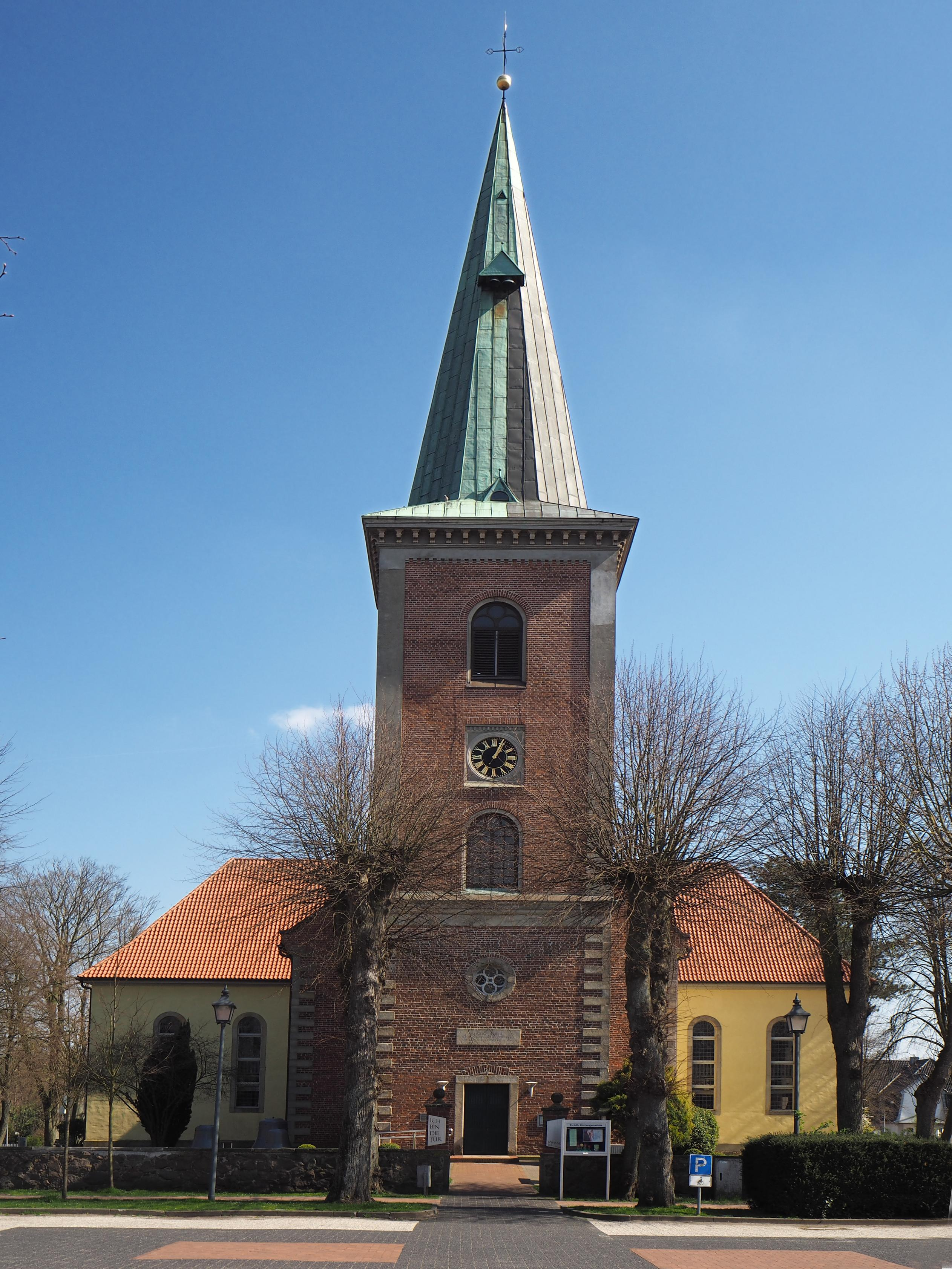 Harpstedt (Germany, Lower Saxony) - Christuskirche